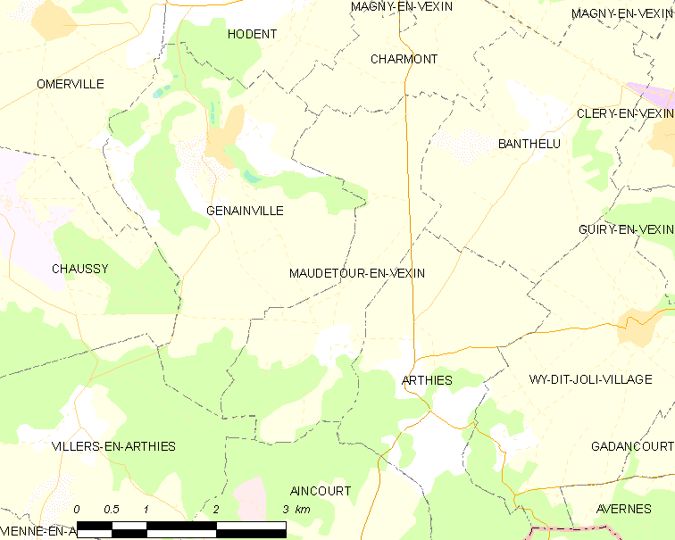 Map of French municipality Maudétour-en-Vexin